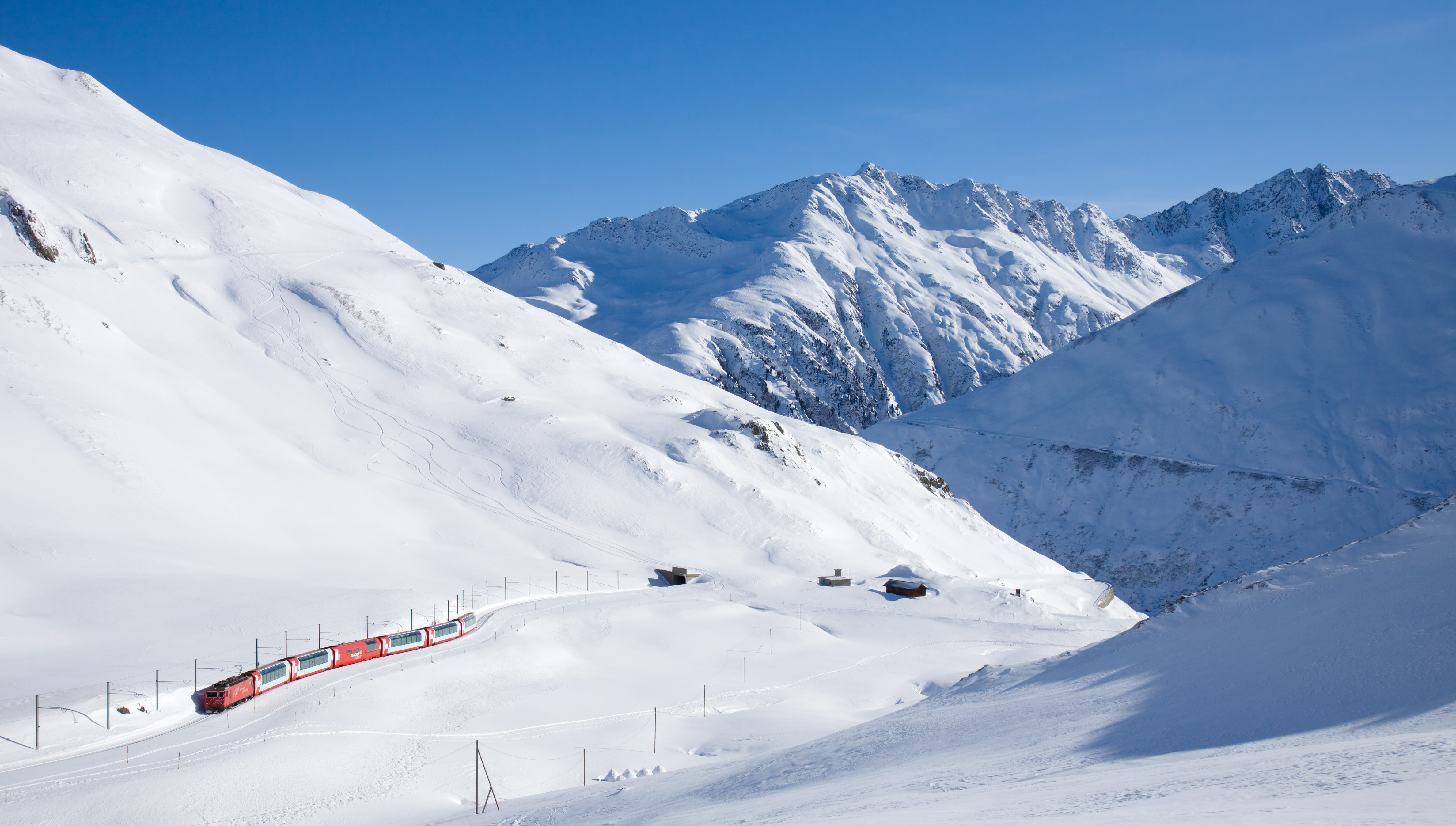 Glacier Express to Zermatt on the rack rail section just below Oberalp Passhöhe. The locomotive is a HGe 4/4 II built by SLM and is now operated by the Matterhorn Gotthard Bahn.